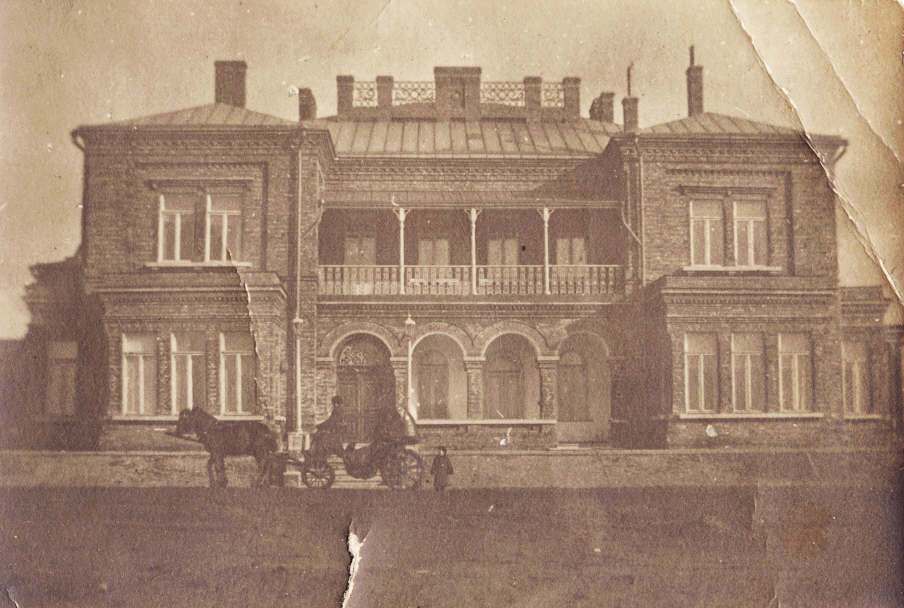 The Hughes family house, Hughesovka